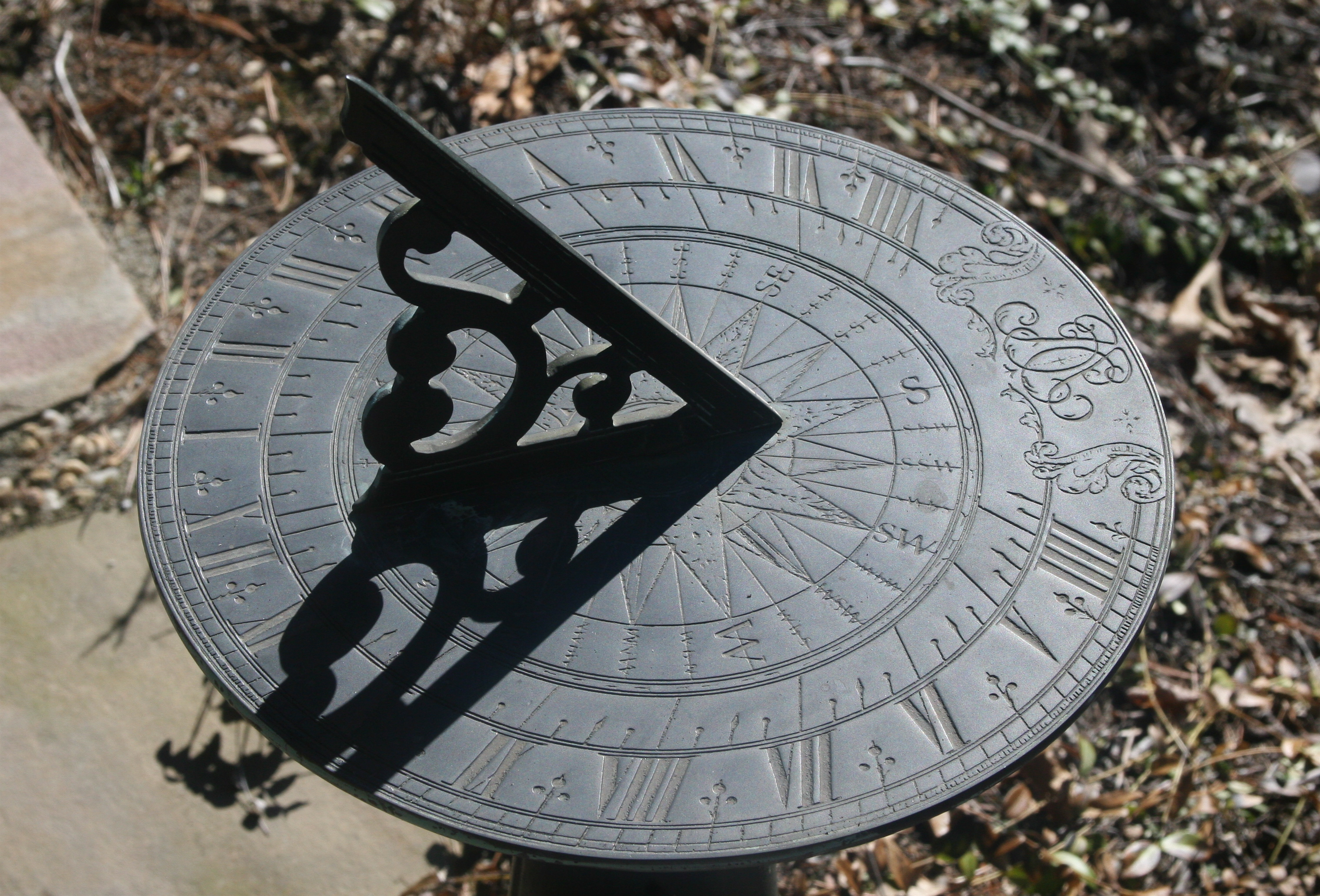 Sundial,located at "The Healing Garden" which is an organization in Harvard, Massachusetts, that provides a variety of services to families touched by cancer.